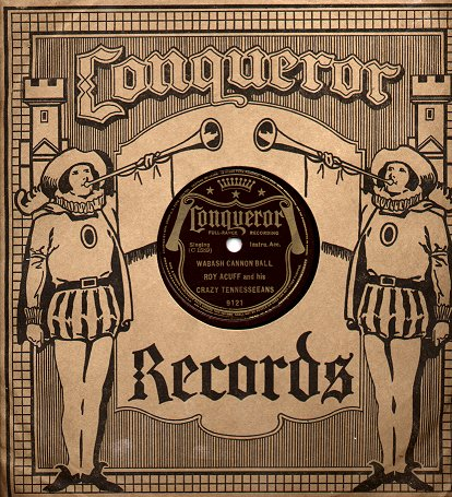 Conqueror Records paper sleeve art, 1920s